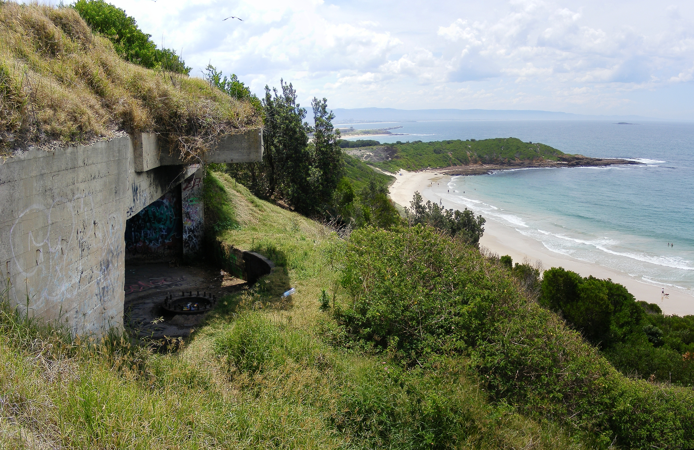 Gun position No. 2 at Illowra Battery, which formed part of the Kembla Fortress defences in World War II. See also File:Hill 60. battery port kembla.jpg for a view to the left. See also File:Illowra Battery 1944 AWM 081445.jpeg for the gun position as it appeared in 1944, when it mounted a 6-inch Mk XI gun.